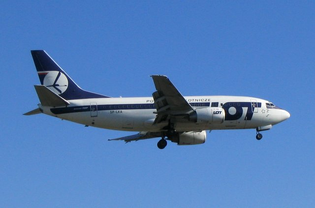 LOT Boeing 737-500 (SP-LKA) landing on Okęcie Airport in Warsaw.